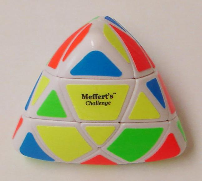 Mèffert's pillowed Master Pyramorphix, color-scrambled